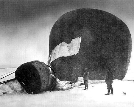 Photo taken by Nils Strindberg, member of the disastrous S. A. Andrée polar expedition.